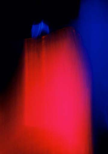 Digital photopainting, 120x180cm. First shown 2003/2004 at Preus Museum (Formerly ´Norwegian Museum of Photography´)